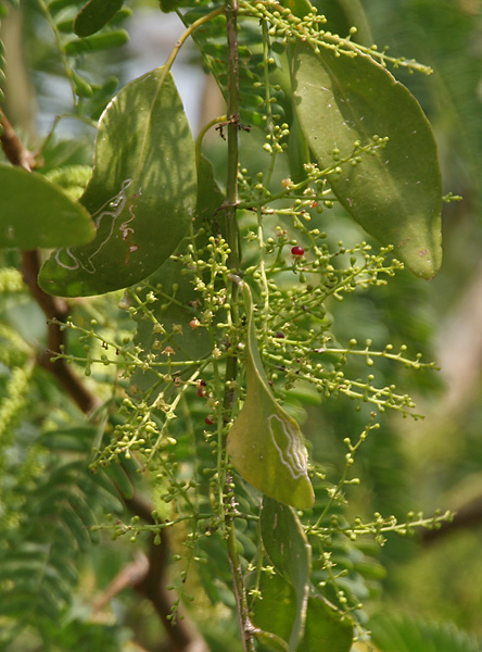 Peelu, Meswak toothpaste plant, Saltbush, Chhota Peelu, Jhak, Kharjal, Jal, Dhalu, Sara or Piludi Salvadora persica in Krishna Wildlife Sanctuary, Andhra Pradesh, India.